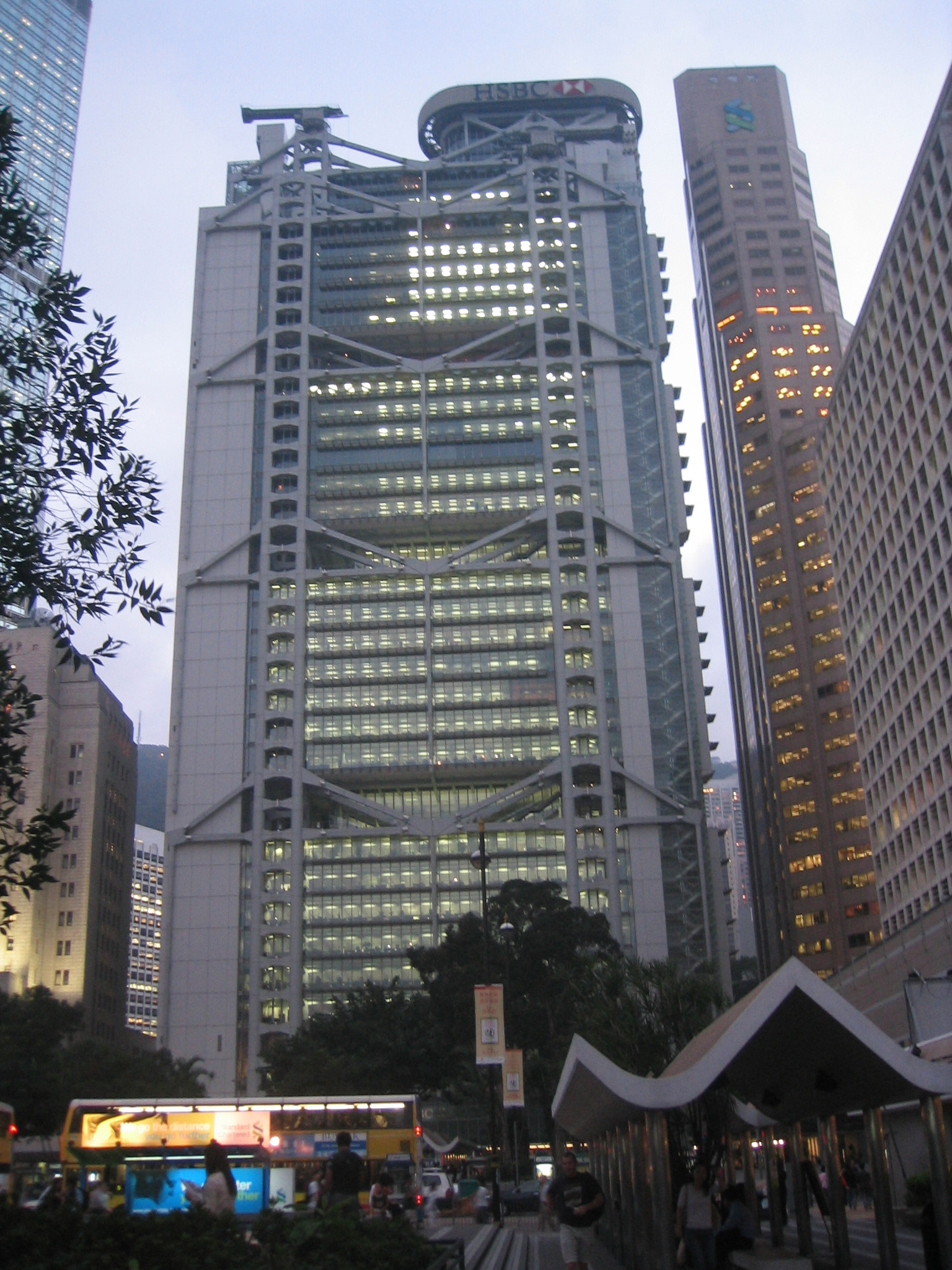 I took this photo on my own on 9/11. Category:Norman Foster buildings (The Hongkong and Shanghai Banking Corporation Ltd.)